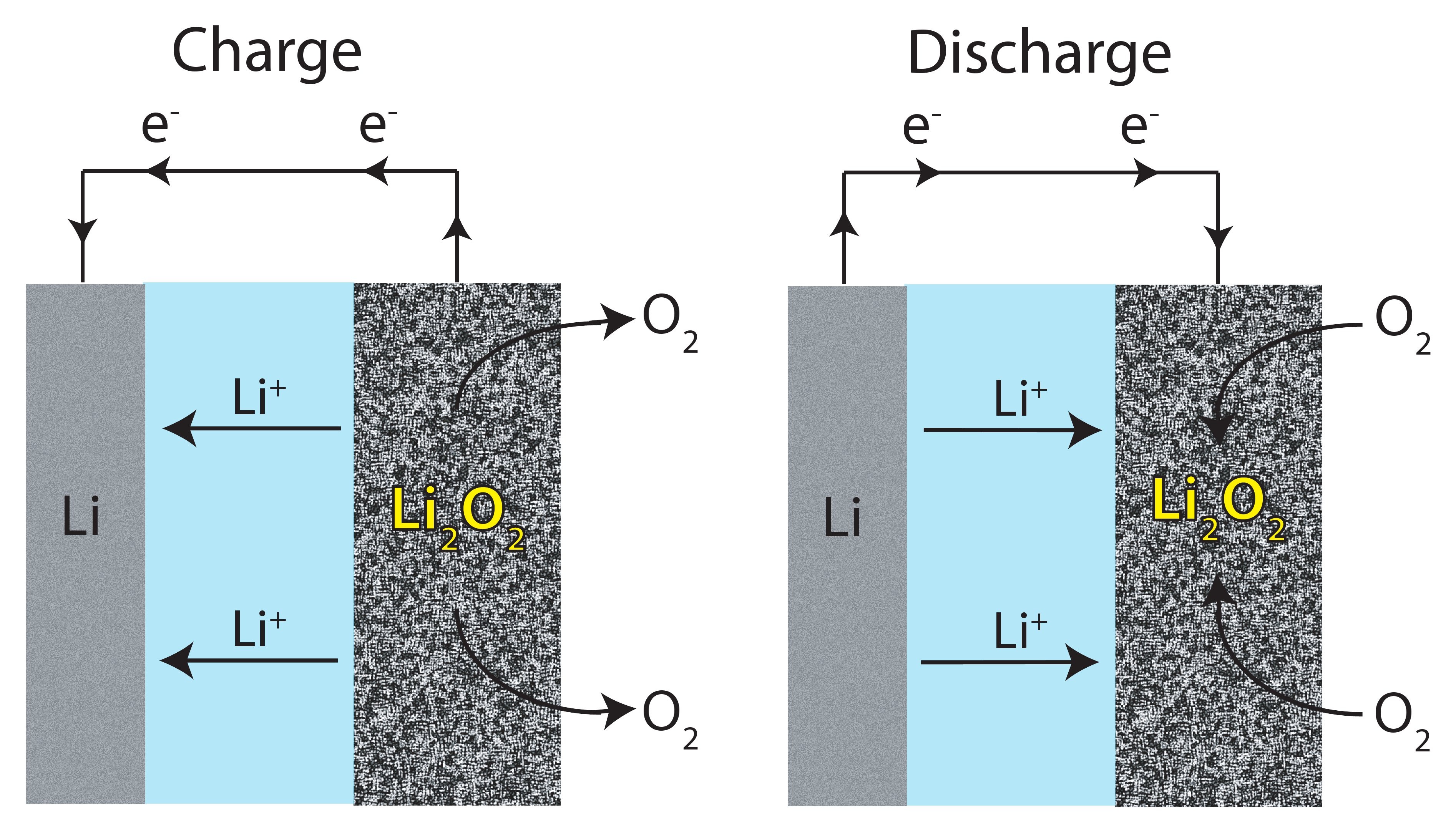 Charge-discharge diagram for a lithium-air battery